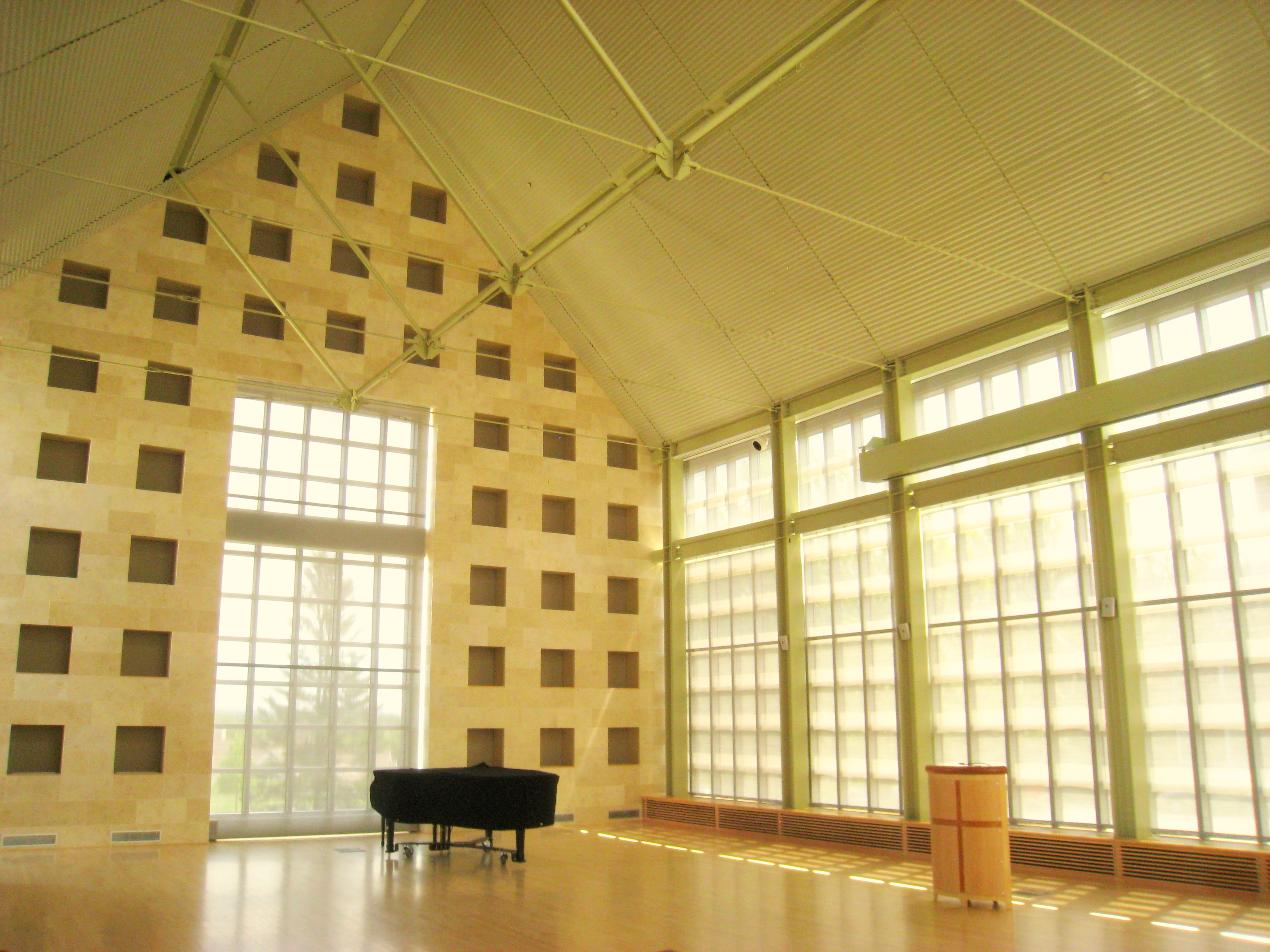 Wilson Chapel, Andover Newton Theological School, 210 Herrick Road, Newton Centre, Massachusetts, USA.